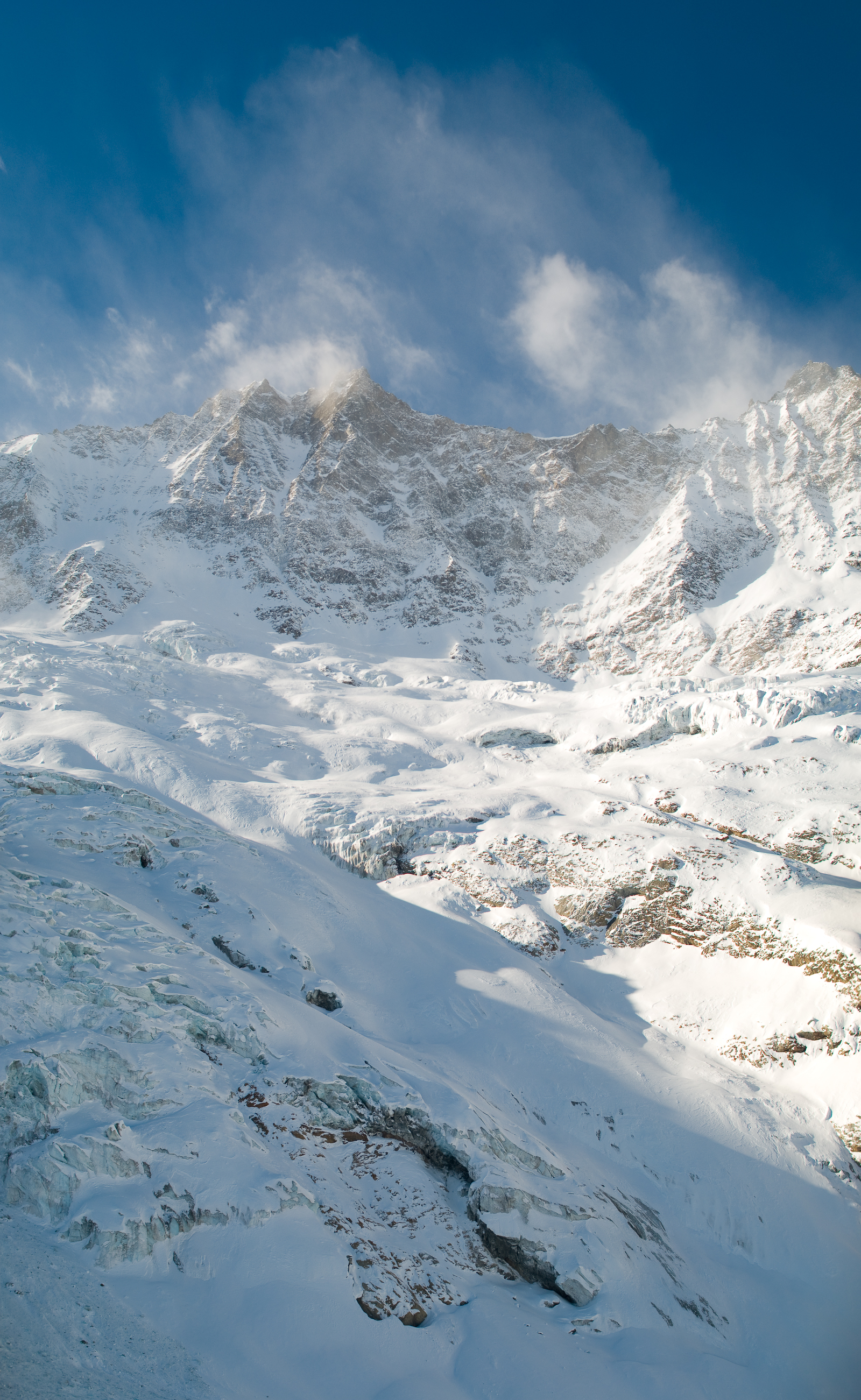 This picture shows the Dom in Saas-Fee.